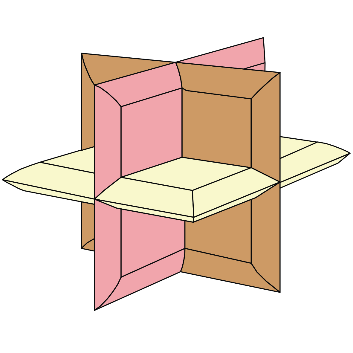 Drawing of söhngeite (hypothetical idealized twin); reference: W. Pinch and W. Wilson (1977), Mineralogical Record Vol. 8, issue 3, page 32